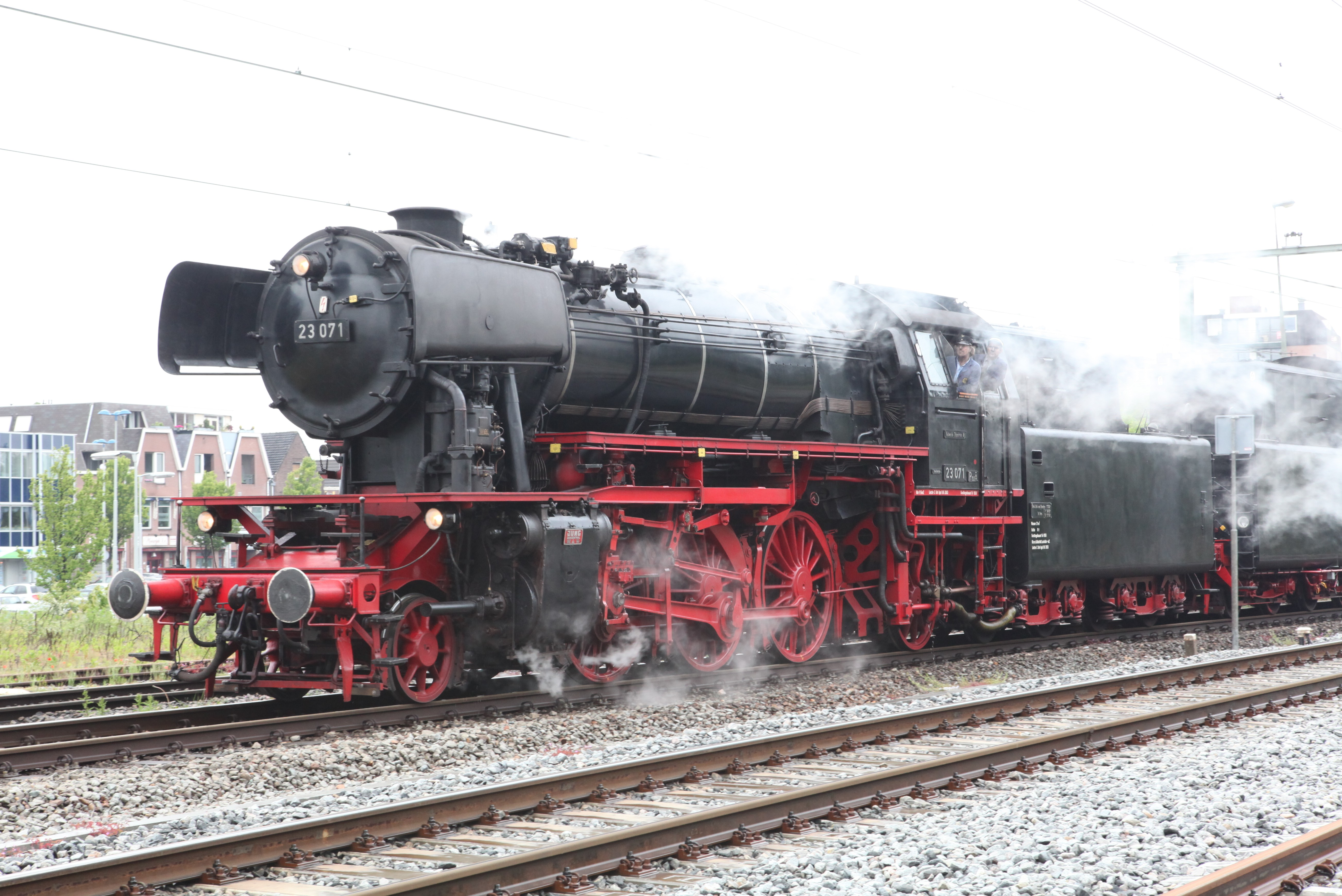 Steam locomotive 23 071 from the Veluwsche Stoomtrein Maatschappij located in Beekbergen.